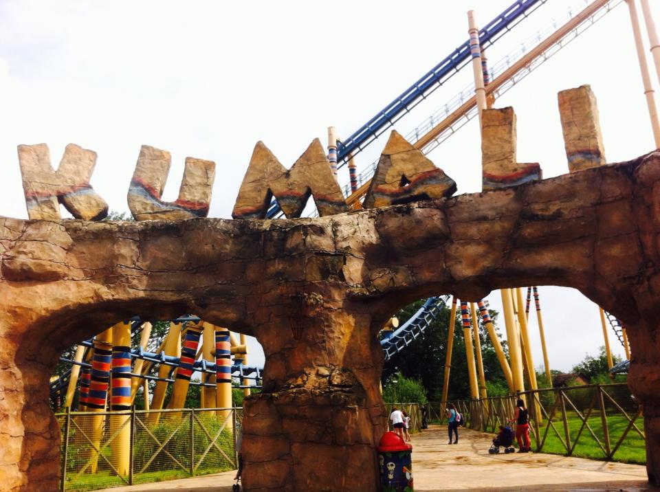 this is the over head logo used in the entrance of kumali this photo was taken by conor boyle in 2014